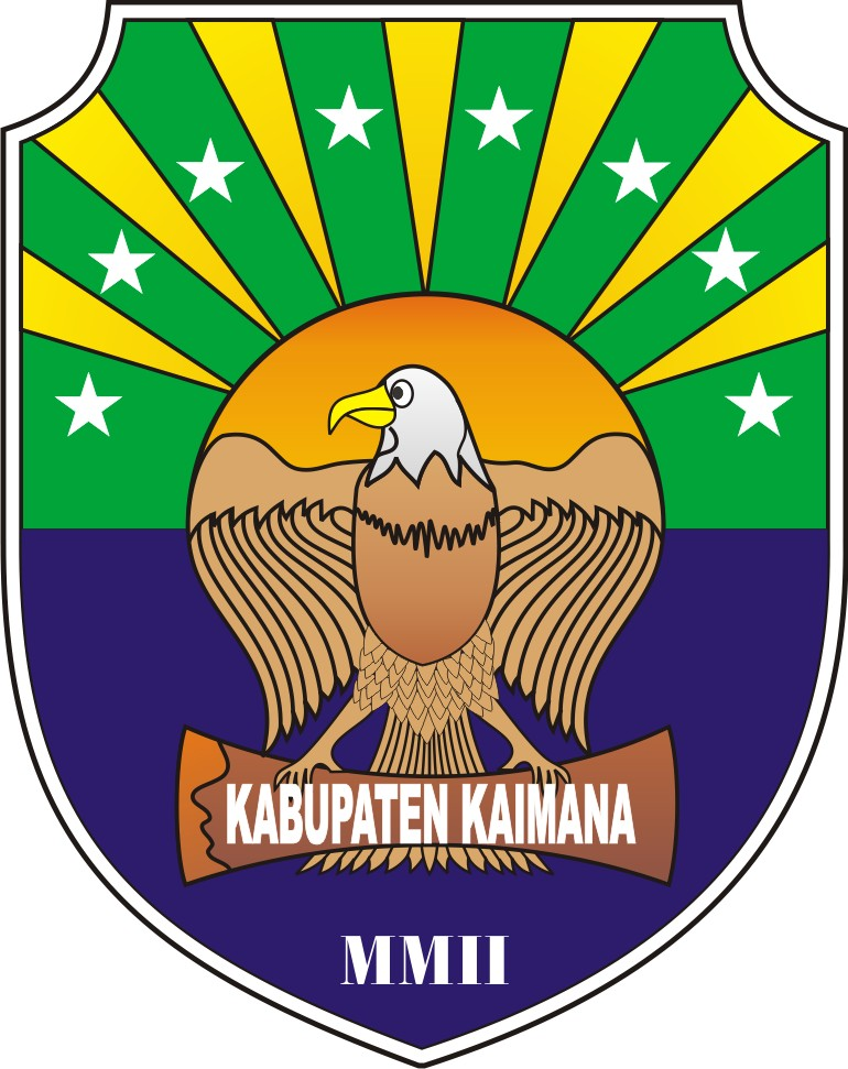 Coat of Arms (Lambang) of Regency (Kabupaten) Kaimana, Provinsi Papua Barat, Indonesia